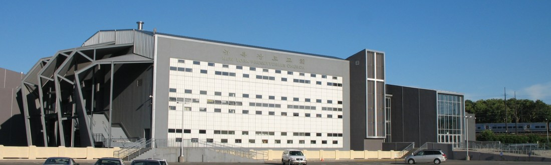 New York Presbyterian Church in Sunnyside, New York with Long Island Rail Road passing on right. Photo by poster in July 2007.